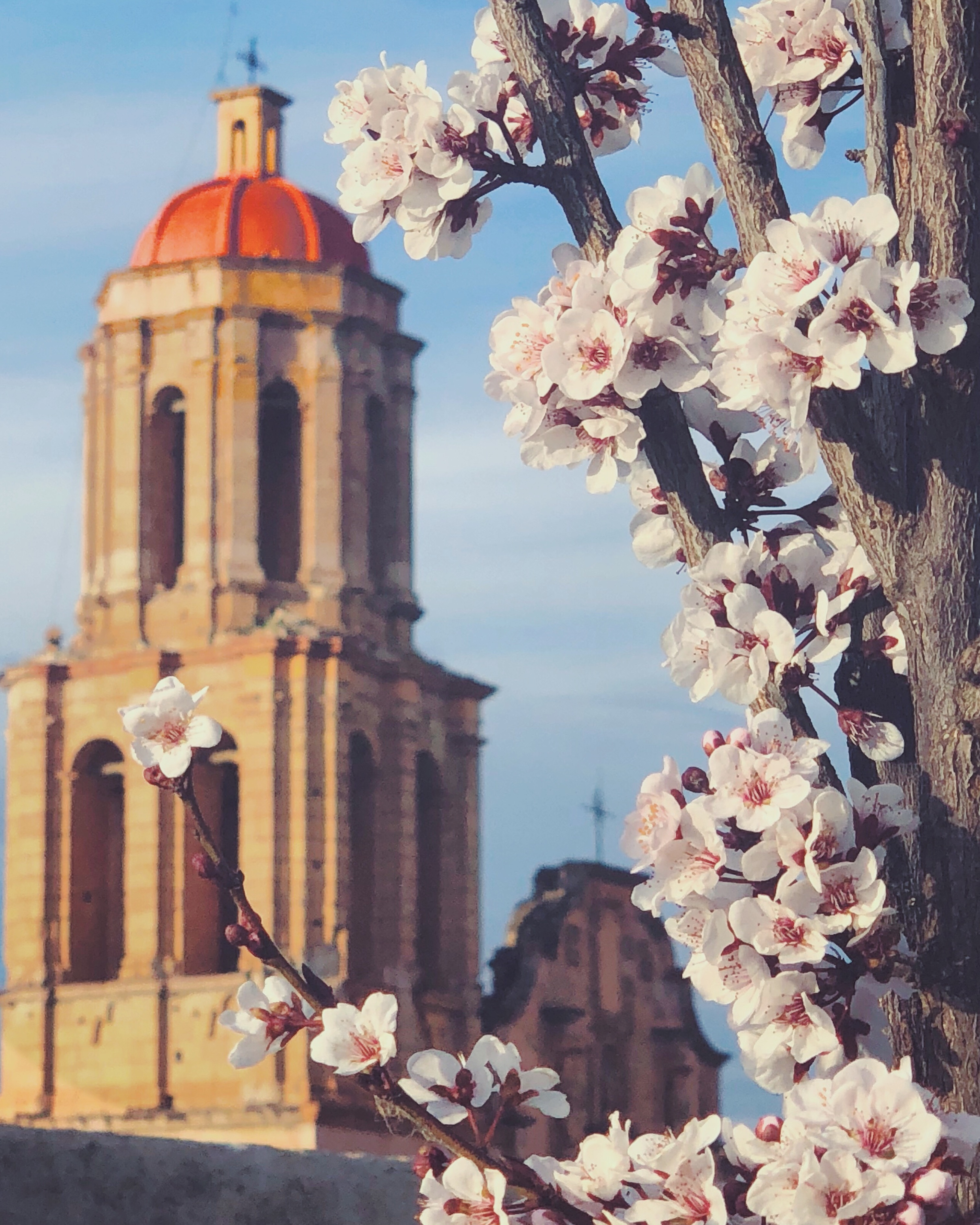 Sombrerete, Zacatecas